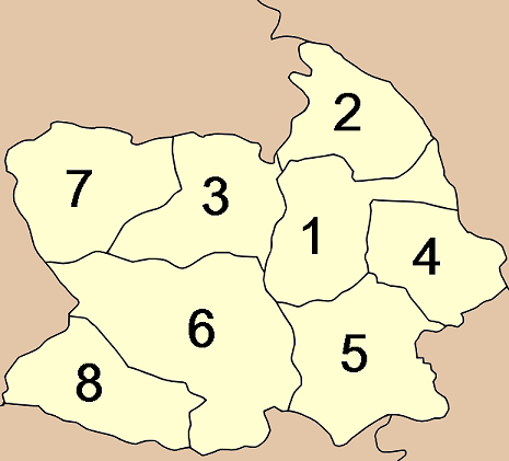 Map of the province Chainat with the districts (Amphoe) numbered. Mueang Chainat (อำเภอเมืองชัยนาท) Manorom (อำเภอมโนรมย์) Wat Sing (อำเภอวัดสิงห์) Sapphaya (อำเภอสรรพยา) Sankhaburi (อำเภอสรรคบุรี) Hankha (อำเภอหันคา) Nong Mamong (sub-district) (กิ่งอำเภอหนองมะโมง) Noen Kham (sub-district) (กิ่งอำเภอเนินขาม)